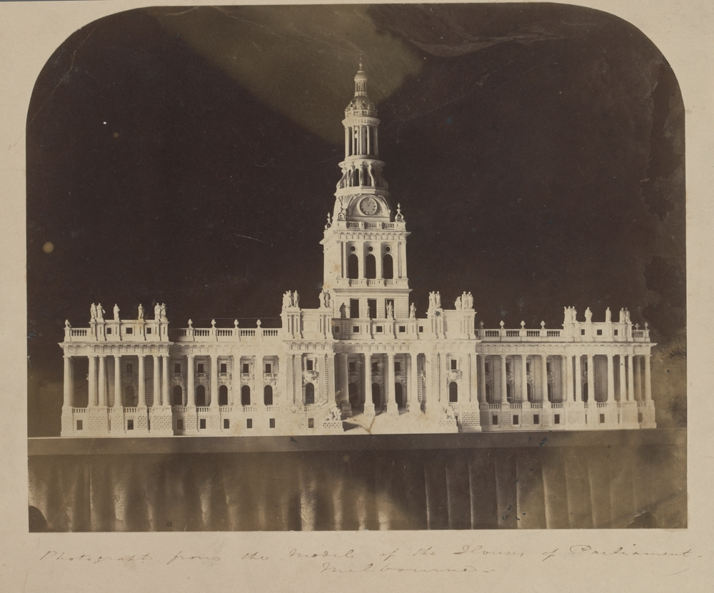 Parliament House Model of 1855 design, photo dated 1859 inscribed from J G Knight